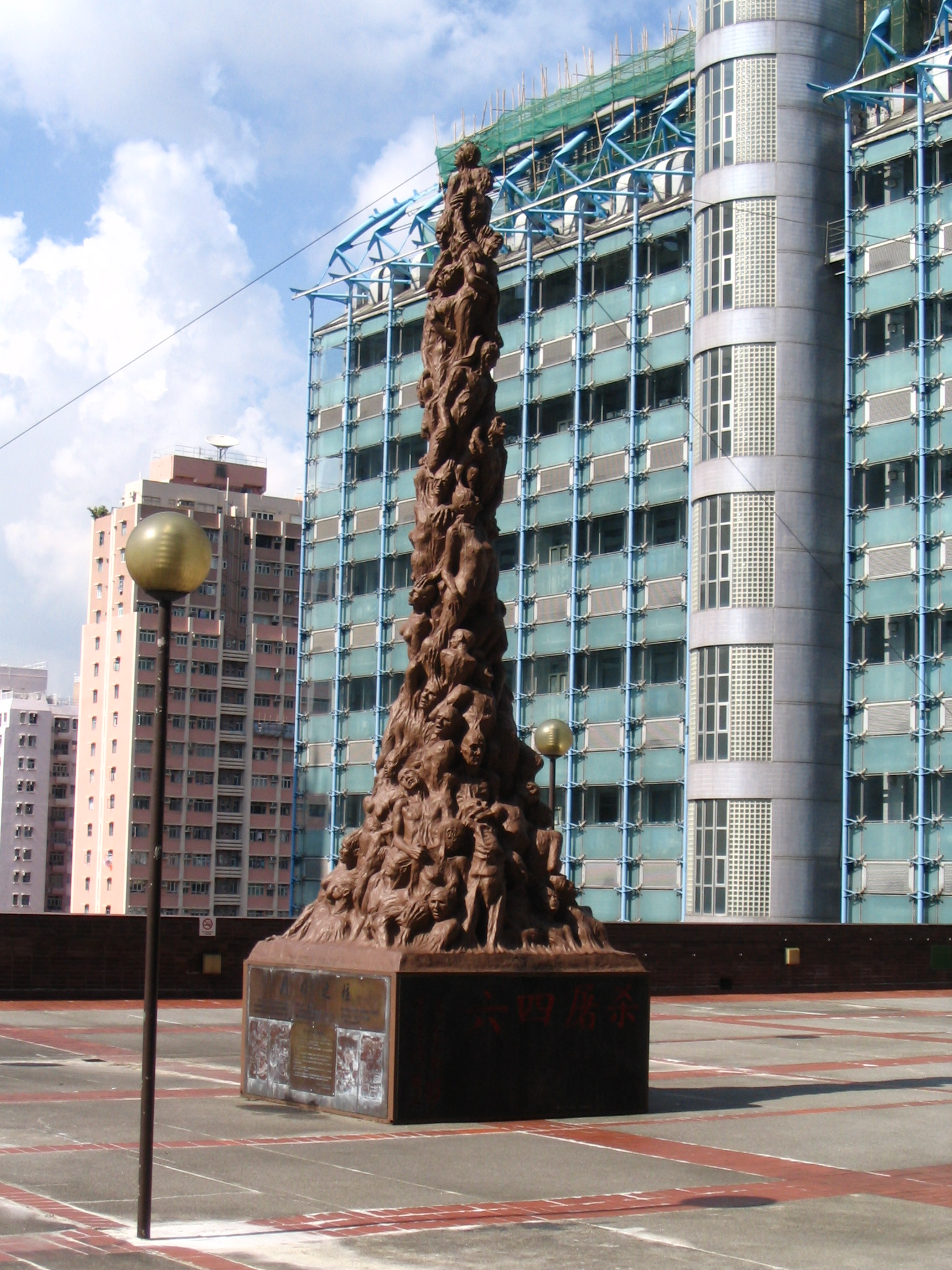 Photo of Pillar of Shame